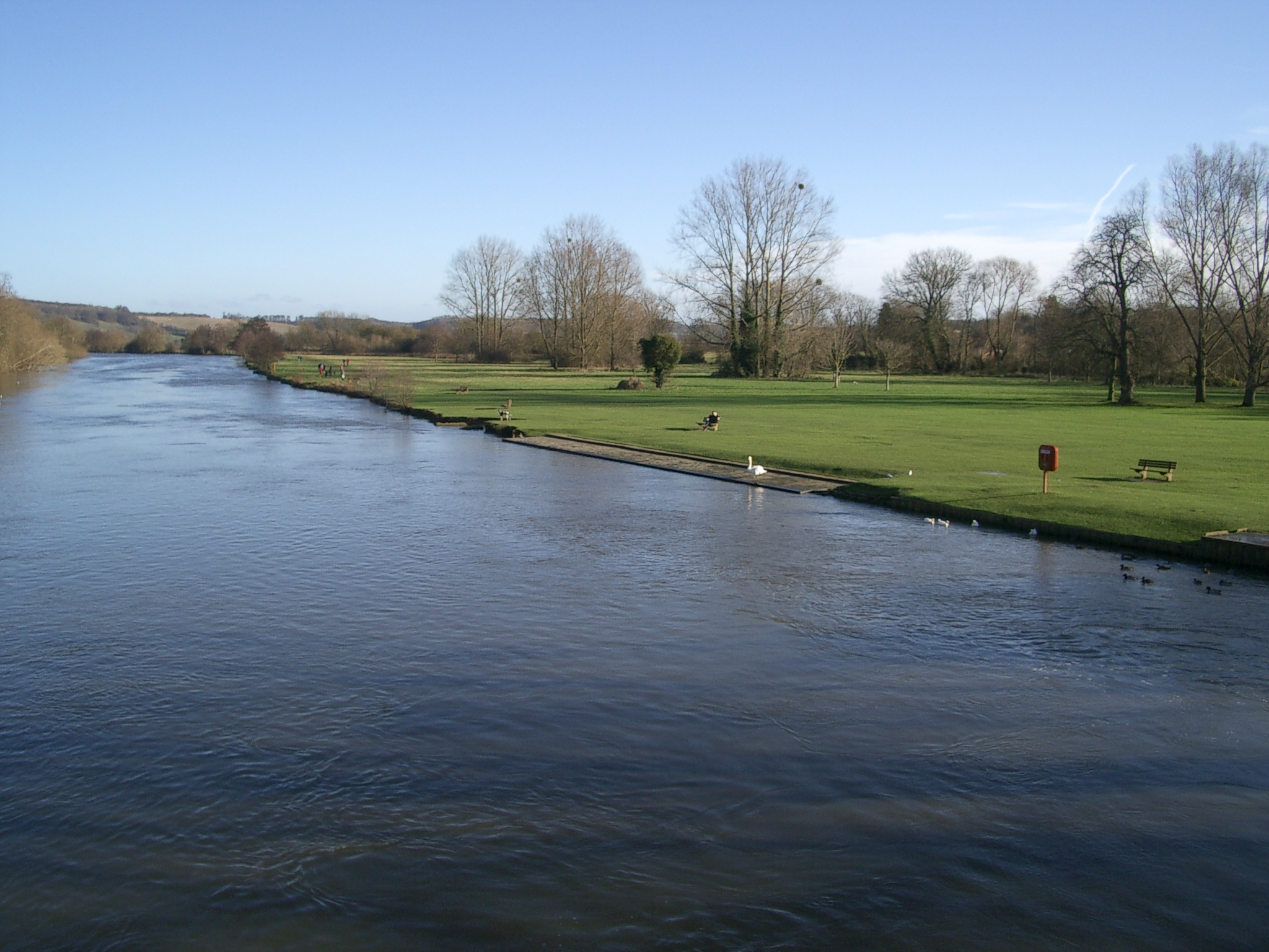 Author: Peter Linton Copyright: None - feel free to grab it! "The Meadow" alongside River Thames at Pangbourne. Far end of the meadow is owned by the National Trust.